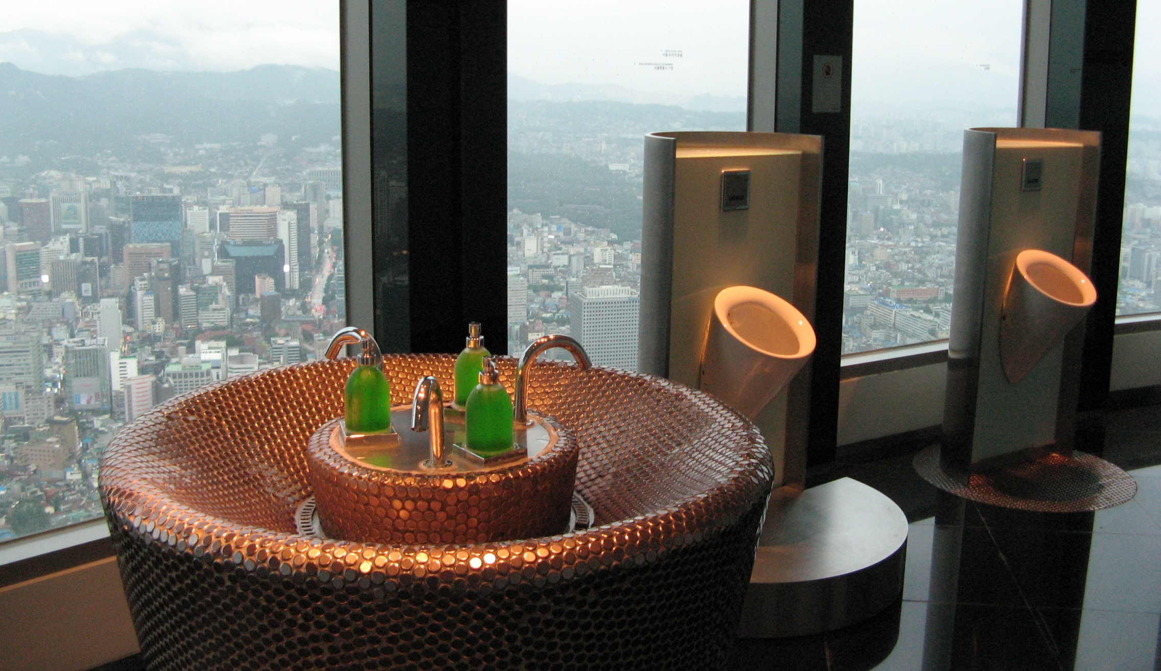 Washbasin & Urinal in mens toilette of television tower Seoul / South Korea